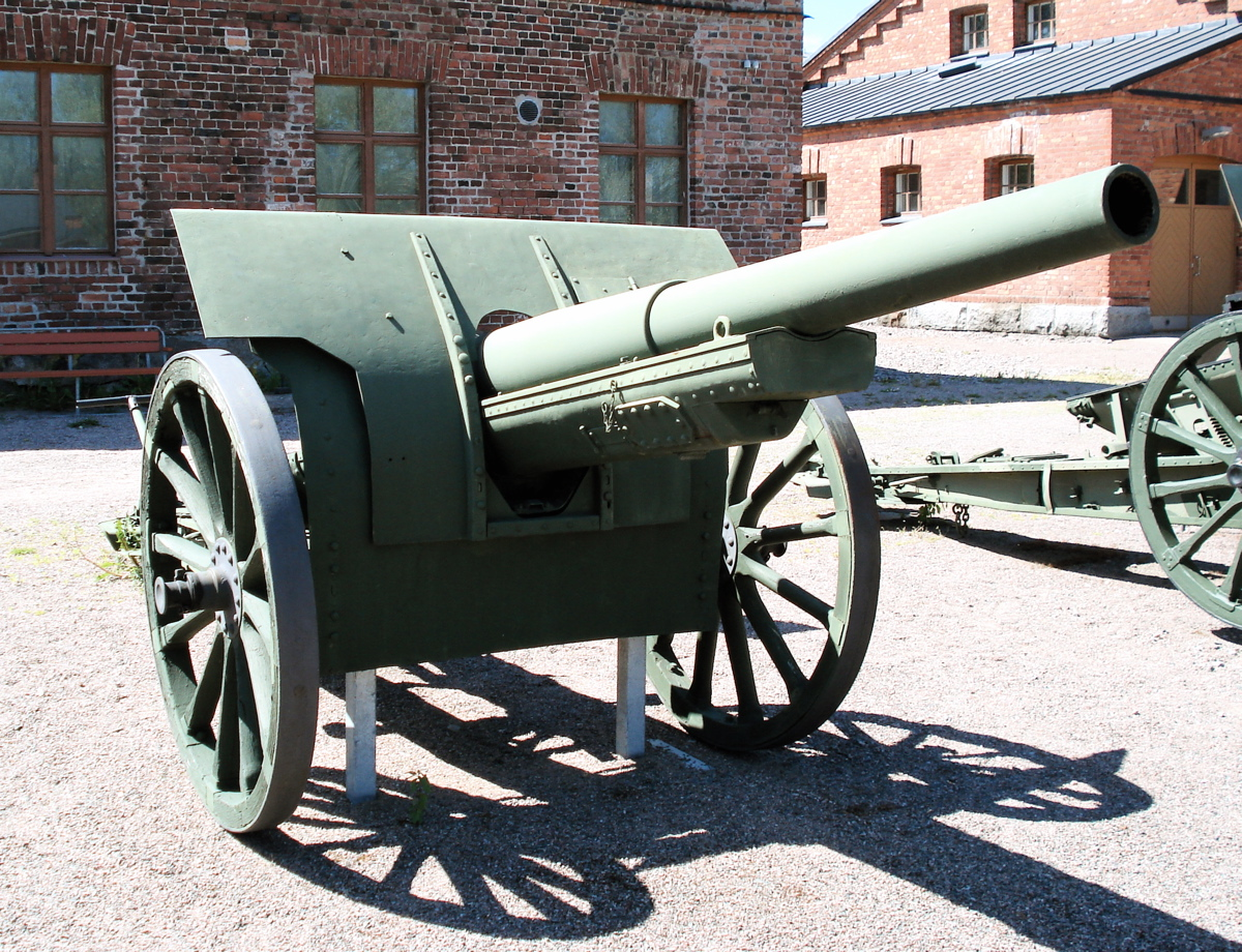 Russian 107 mm M1910 gun, displayed in Hämeenlinna Artillery Museum. This particular gun was manufactured by Putilov in 1916. Photo taken on June 18, 2006. Source: Photo by me, User:Balcer.